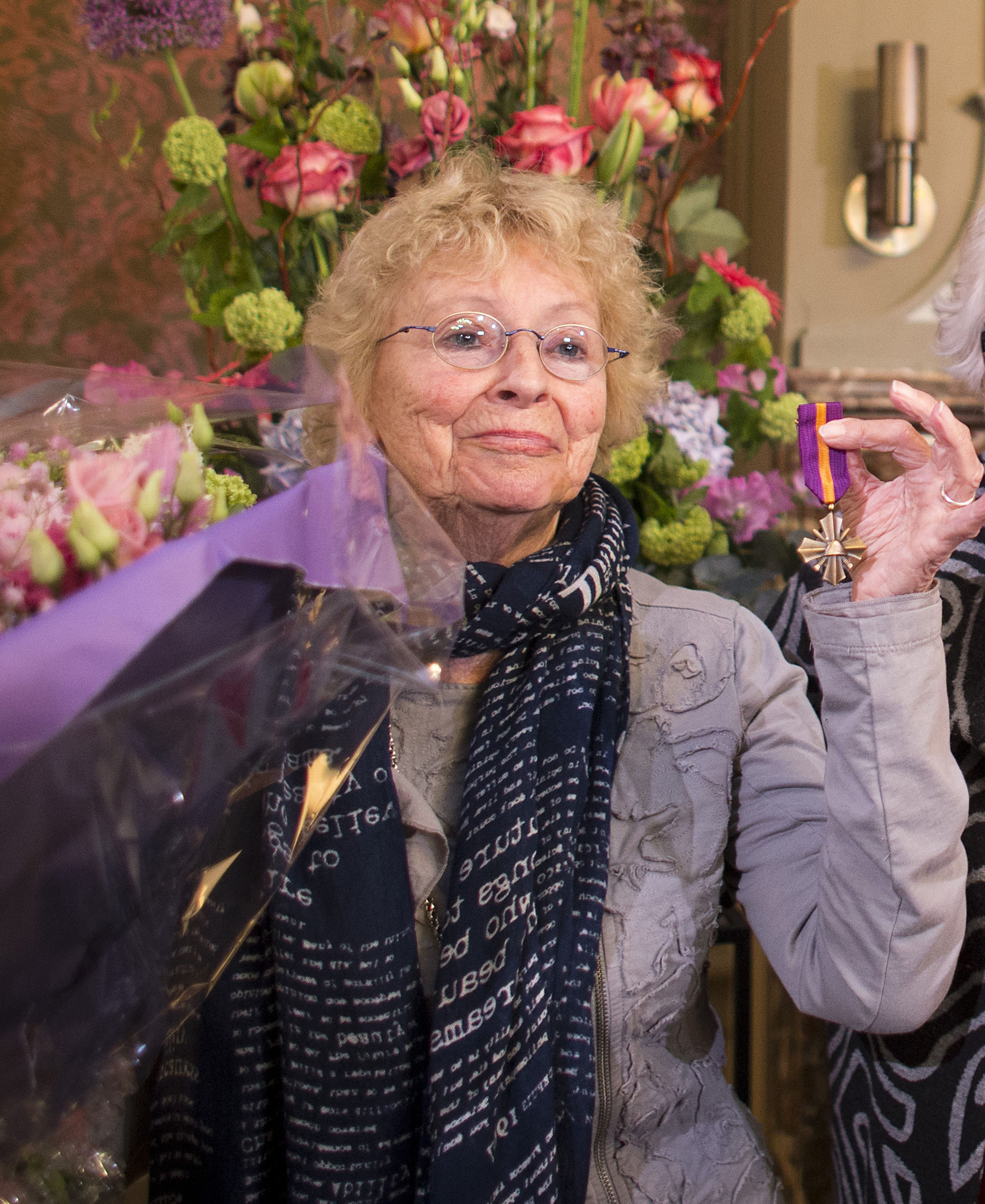 Dutch resistance fighter Freddie Dekker-Oversteegen